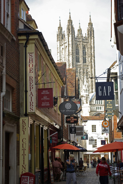 Butchery Lane, Canterbury Commercial Canterbury meets ecclesiastical Canterbury - as, of course, they have done down the centuries. Butchery Lane is a very narrow street linking Parade Street to Burgate.